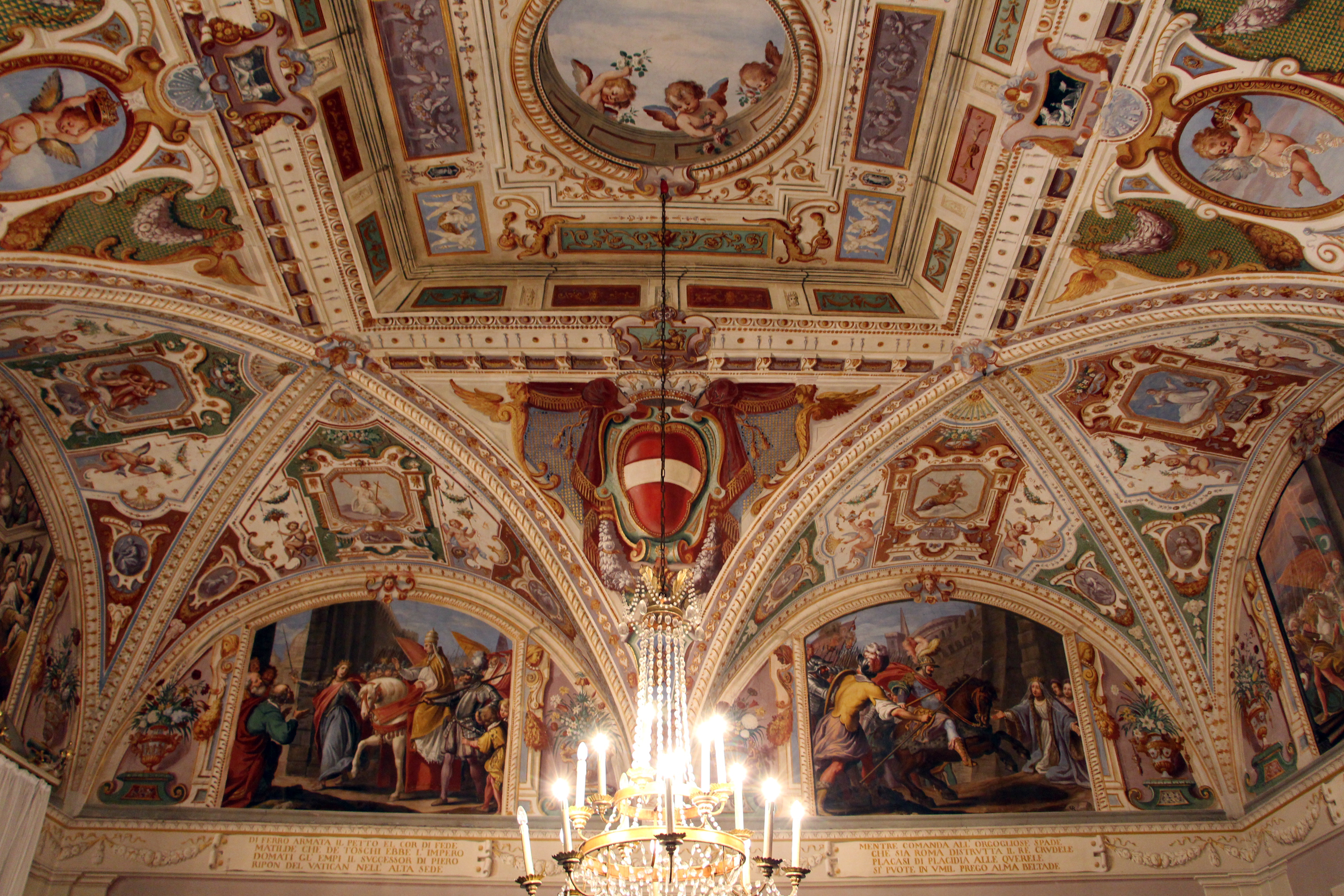 Villa di Poggio Imperiale - Apartments frescoed by Matteo Rosselli